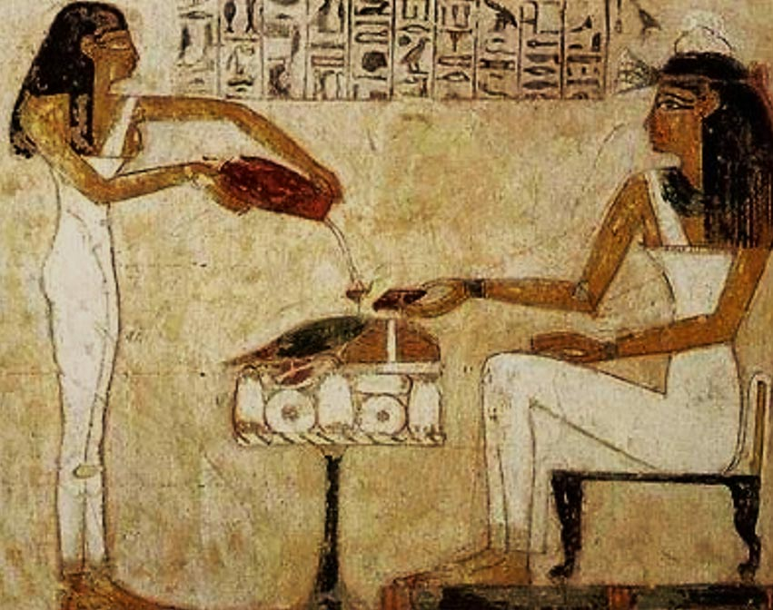 Egyptian hieroglyphics depict the pouring out of beer.